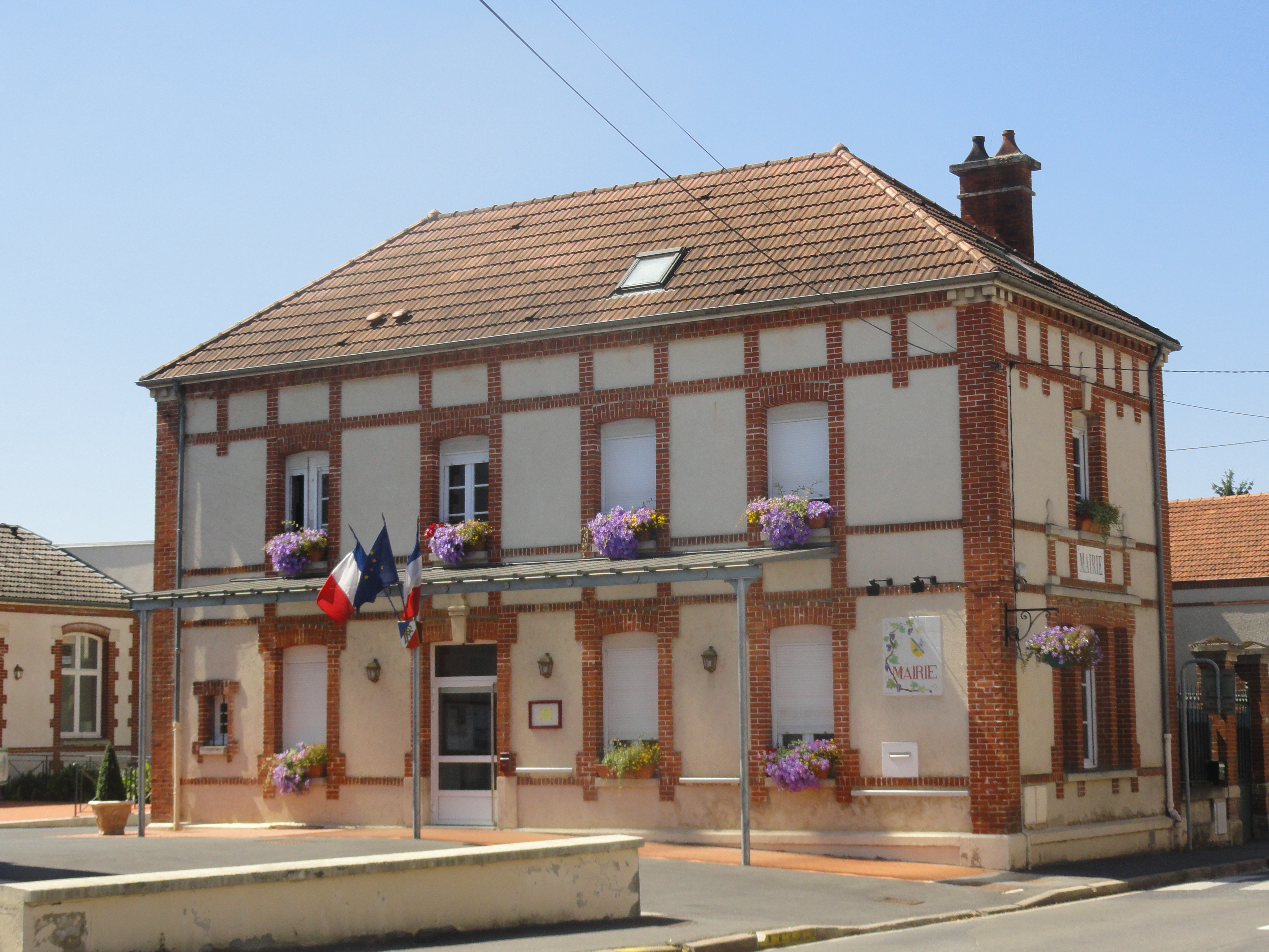 Town hall of Dizy, Marne.